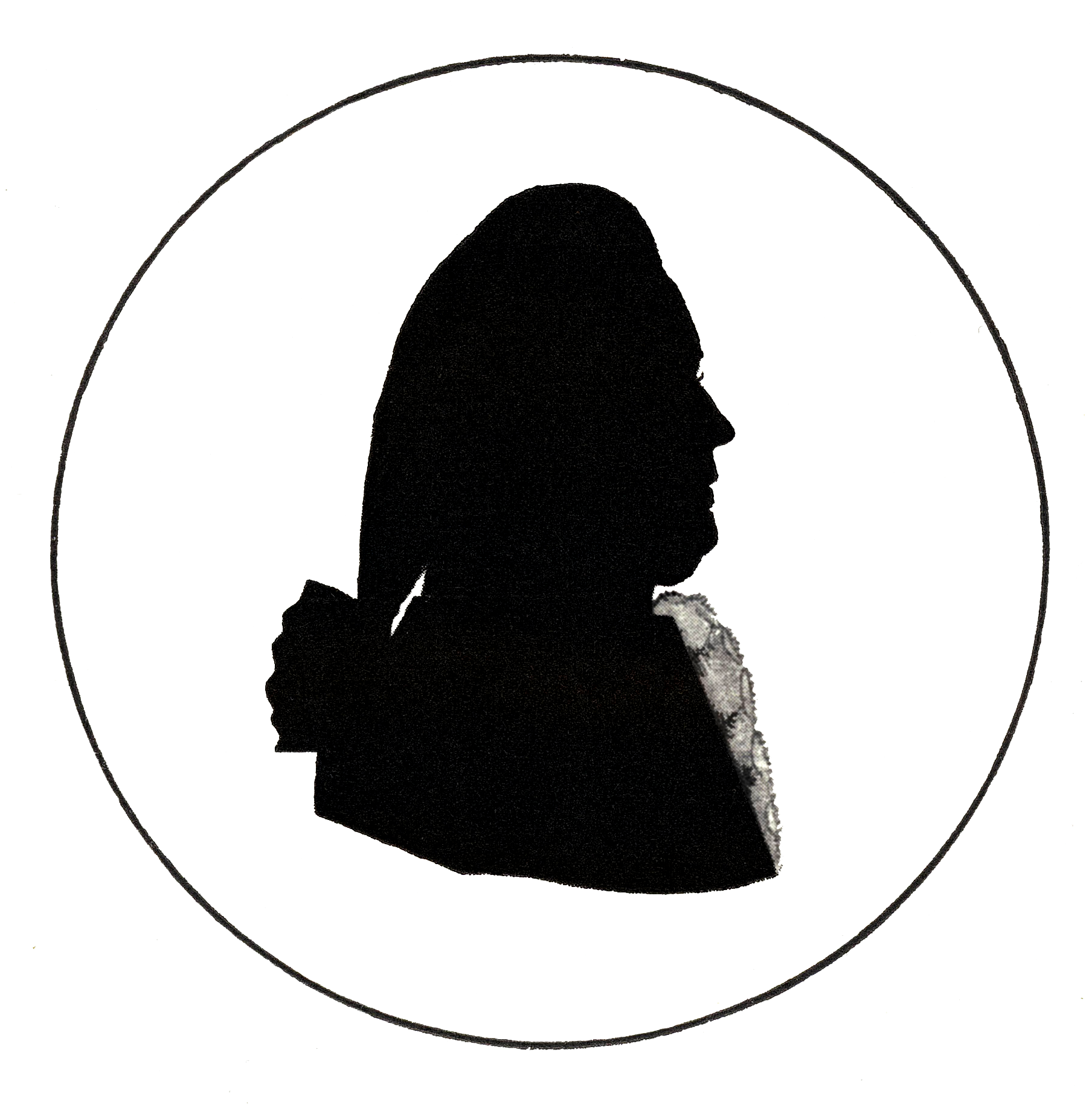 Silhouette portrait of Anders Johan Lexell.